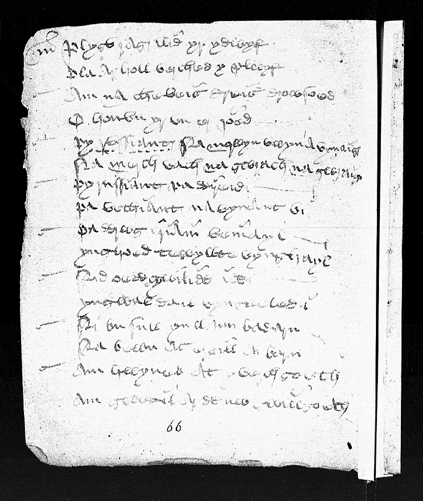 Peniarth Manuscript 54, showing the first few lines of Dafydd ap Gwilym's poem "Merched Lllanbadarn"